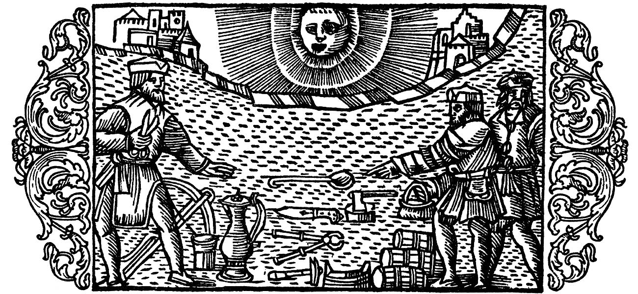 This is a scene from River Fyrisån in Uppsala. It is winter, the full moon shines on the dark sky. Traders are seen on the ice with their merchandise. We can see a crossbow, axe, knife, tongs, scissors and other tools, barrels, a metal jug etc.